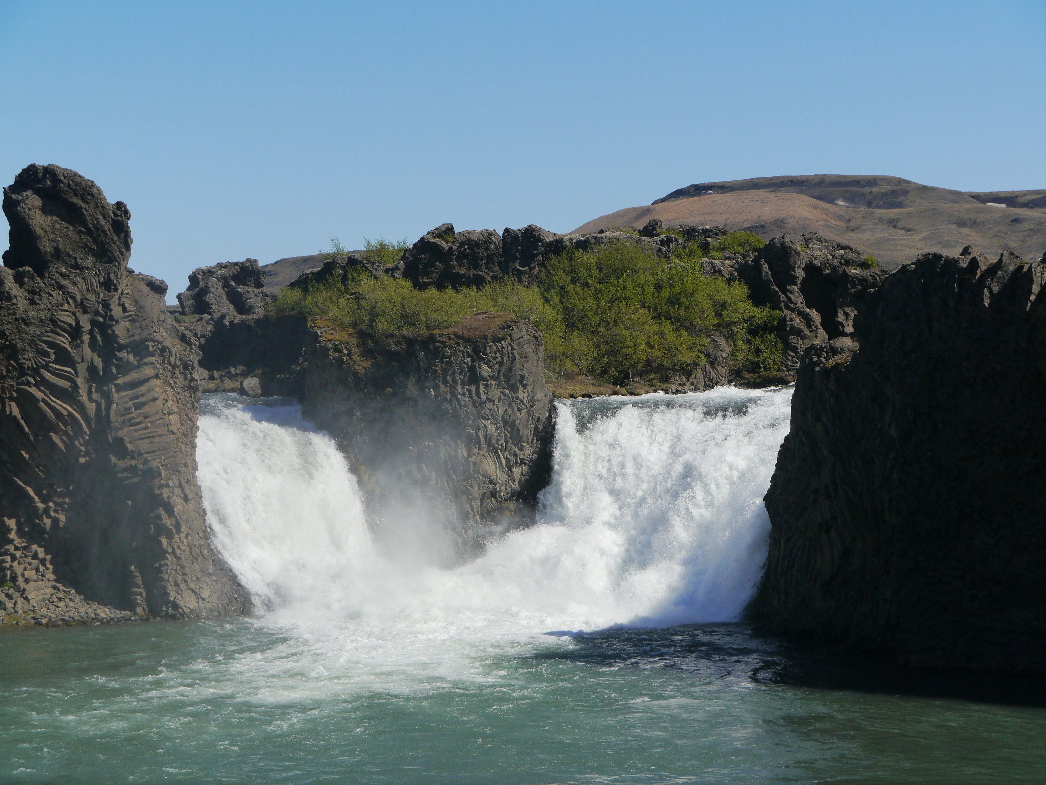 Hjálparfoss